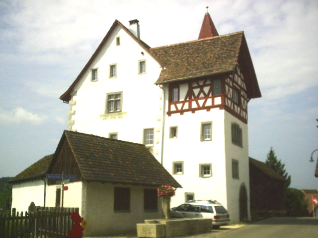 Castle Thayngen